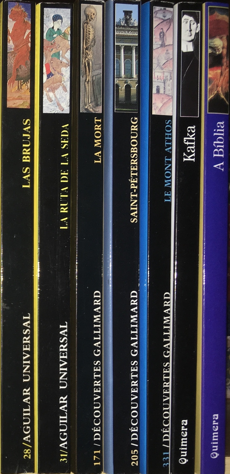 The French editorial collection “Découvertes Gallimard” and its Portuguese & Spanish editions. From left to right: the Spanish edition “Aguilar Universal” (2 volumes); “Découvertes Gallimard” (3 volumes); the Portuguese edition “Descobrir” (2 volumes). Book list: Las brujas, amantes de Satán by Jean-Michel Sallmann;Marco Polo y la Ruta de la Seda by Jean-Pierre Drège;L’heure du grand passage : Chronique de la mort by Michel Vovelle;La magie blanche de Saint-Pétersbourg by Dominique Fernandez;Le Mont Athos : Merveille du christianisme byzantin by André Paléologue;As metamorfoses de Franz Kafka by Claude Thiébaut;A Bíblia: o Livro, os livros by Pierre Gibert.